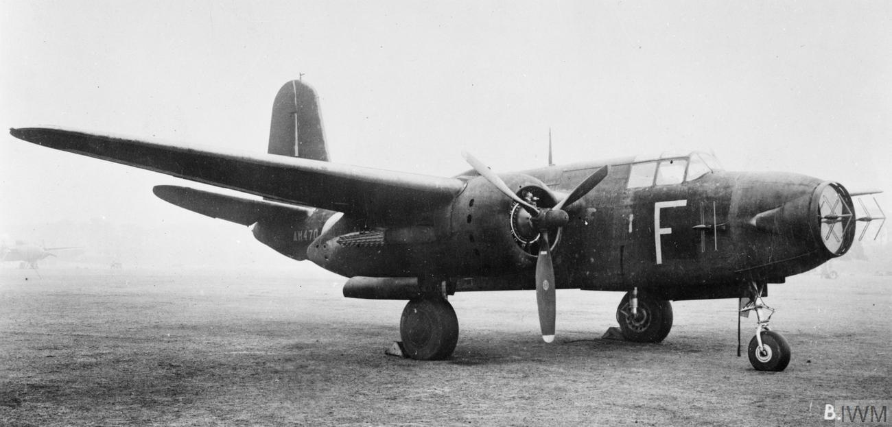 A Royal Air Force Douglas Havoc Mk.II (Turbinlite), serial AH470 "‘F"’, of No. 1459 (Fighter) Flight based at Hibaldstow, Lincolnshire (UK), on the ground.